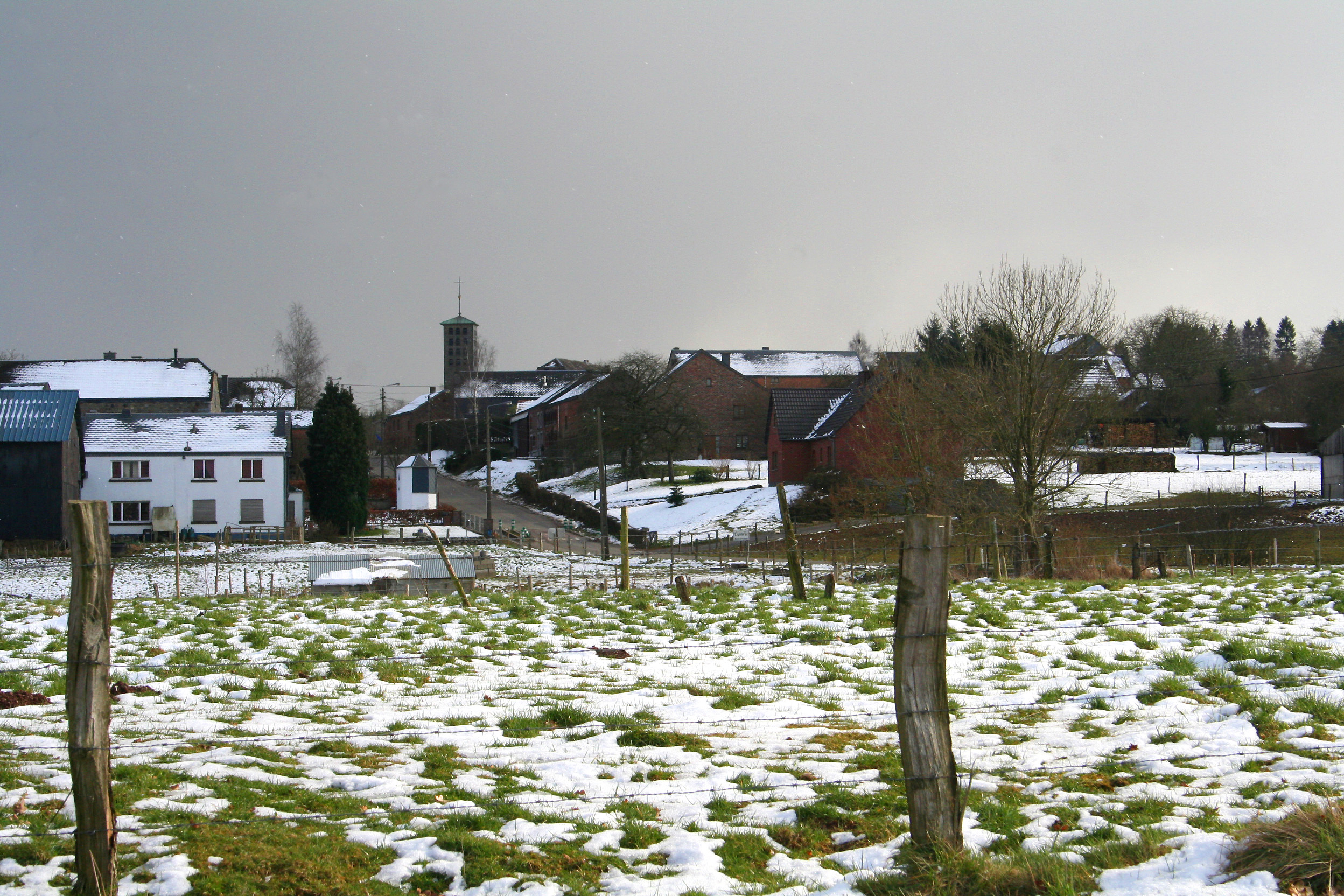 Lignières (Belgium), the village in the winter.